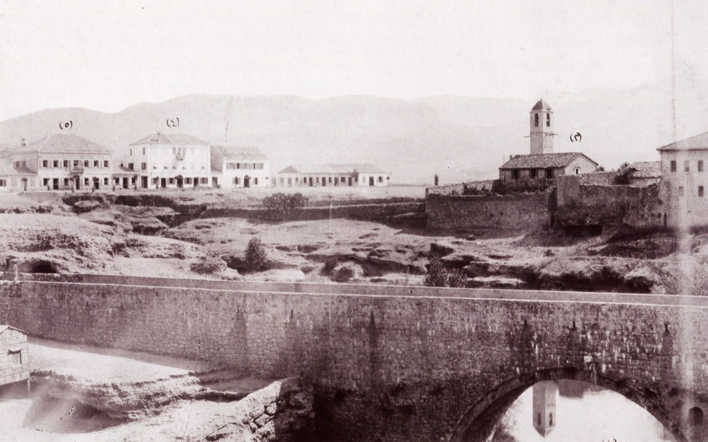 Podgorica, Montenegro. View of Ribnica River, Catholic Church (right), Debbaglar Bridge, government mansion (konak) and the Mirko Varosh Hotel (far left), before 1901. Sultan Abdul Hamid Photo Collection, Istanbul University Library, No. 91243-99